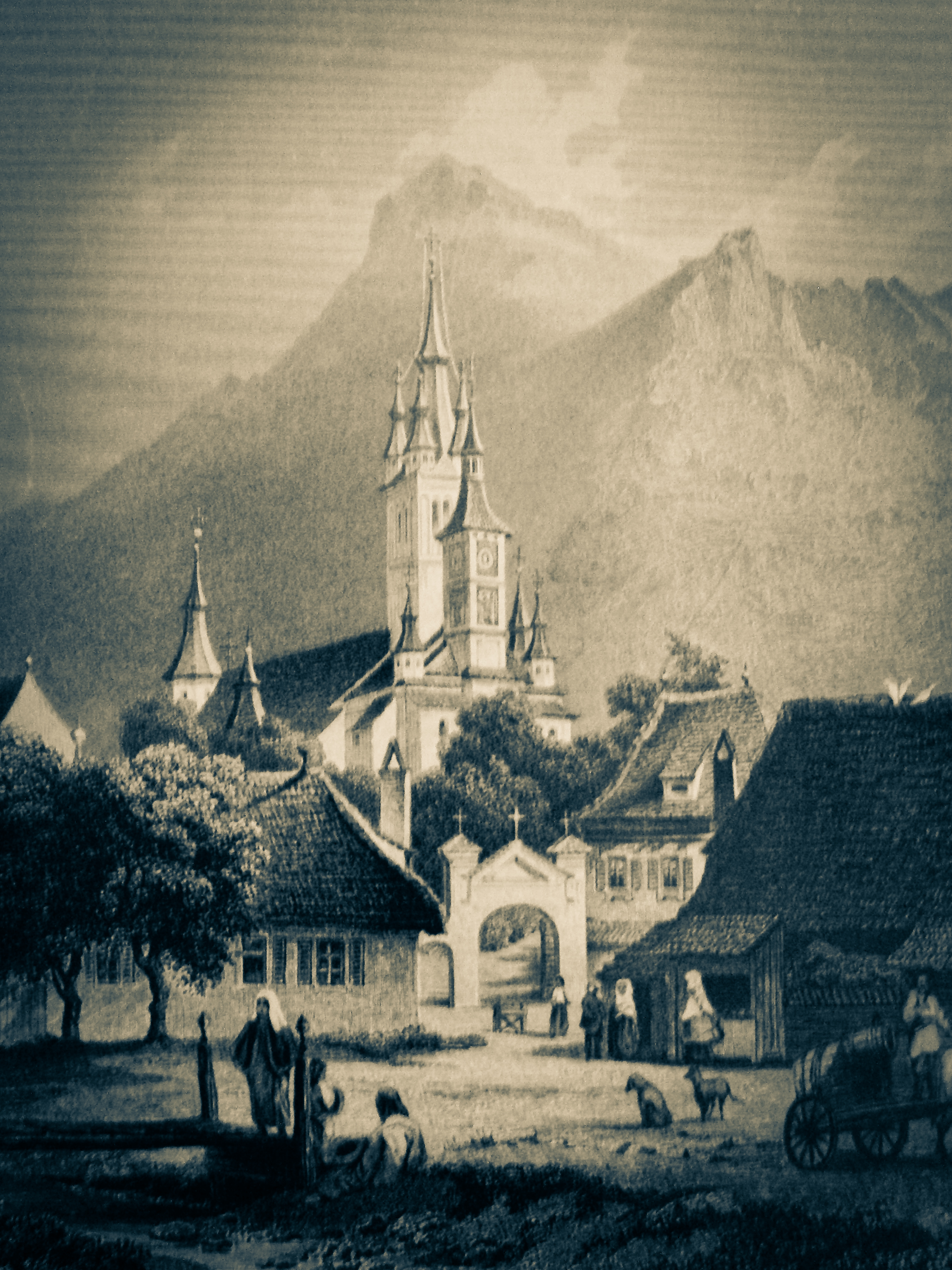 Biserica romaneasca din Brasov by Ludwig Rohbock